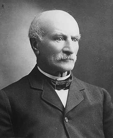 Dr. William Worrall Mayo, co-founder of the Mayo Clinic and father of William James Mayo and Charles Horace Mayo.